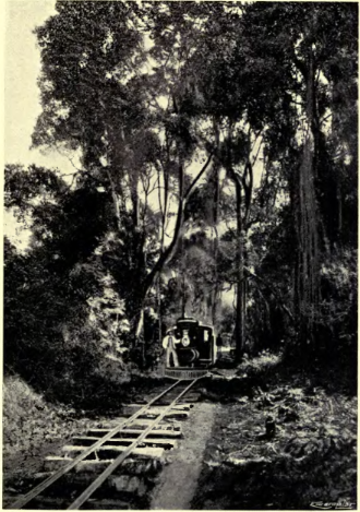 Plantation Railway Santos-Dumont coffee plantation in Brazil